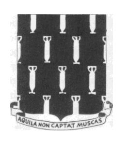 Emblem of the USAAF 304th Bombardment Group